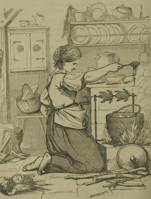 Book illustration, pen drawing